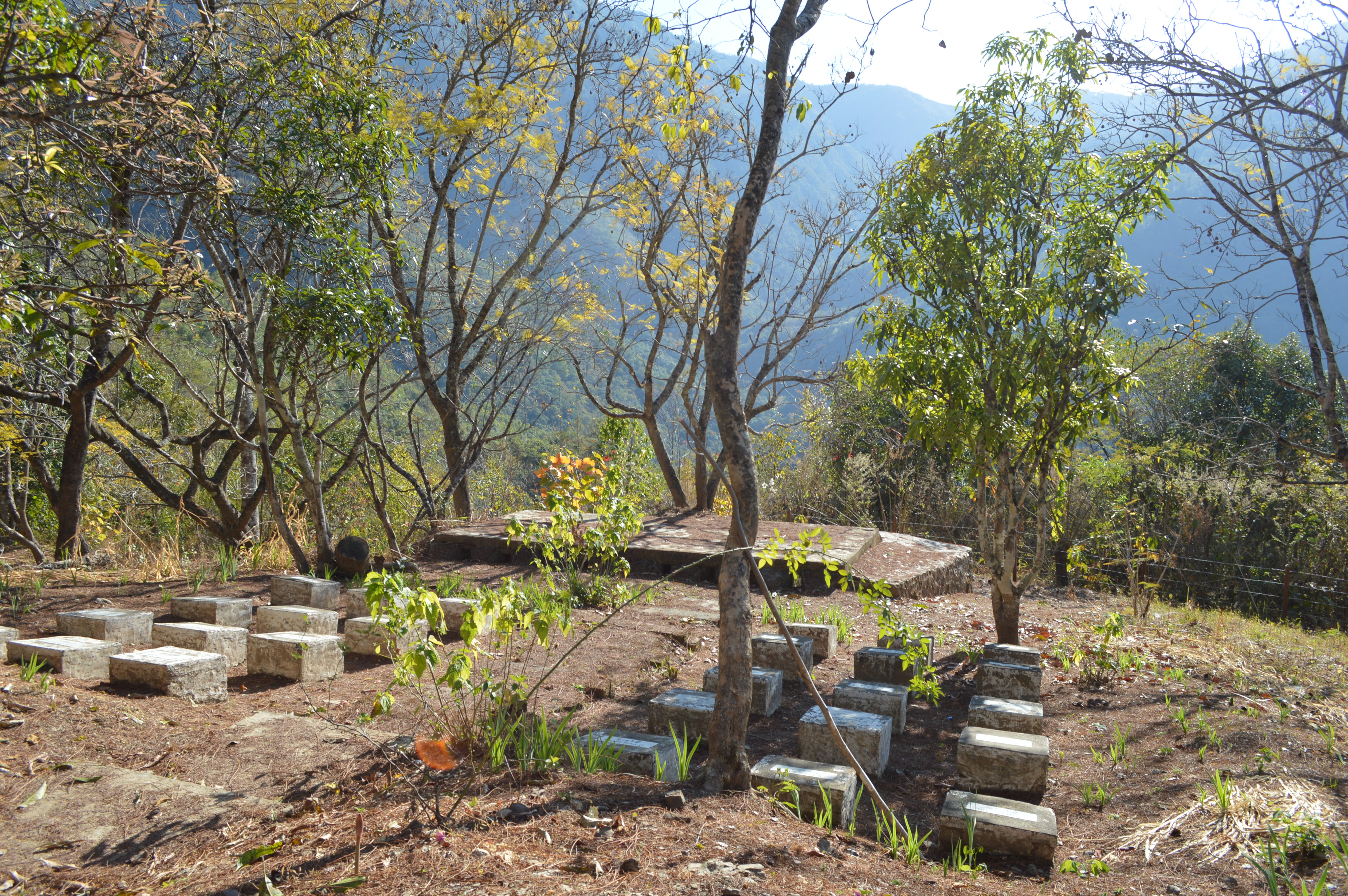 The main Siallum Fort and memorial stones for the fallen